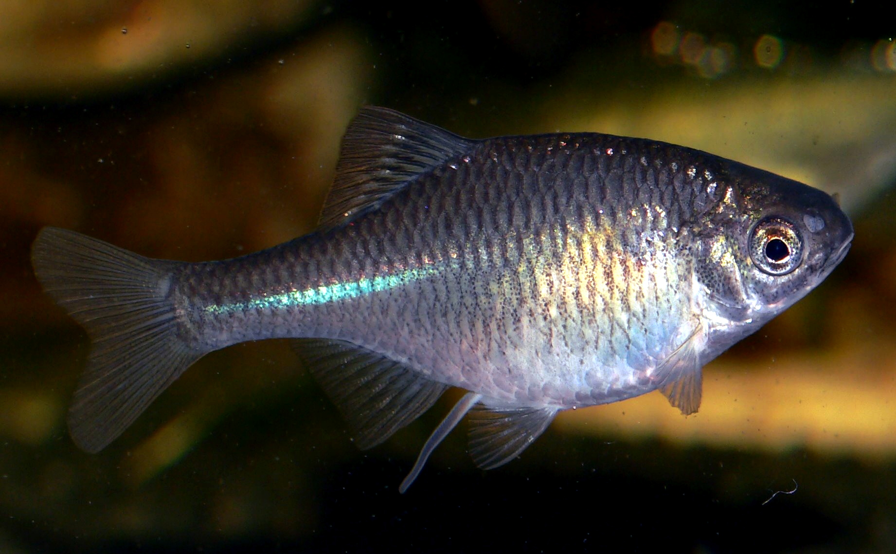 European bitterling, female